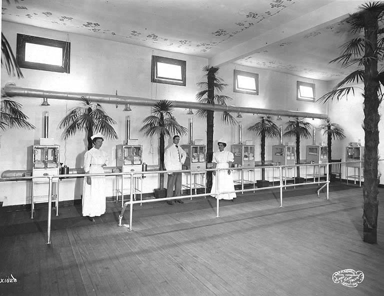 Baby Incubator exhibit interior, Alaska-Yukon-Pacific-Exposition, Seattle, Washington, 1909. Photographer: Unknown Subjects (LCSH): Incubators (Pediatrics)--Washington (State)--Seattle Nurses--Washington (State)--Seattle Physicians--Washington (State)--Seattle Digital Collection: Alaska-Yukon-Pacific Exposition Collection Item Number: AYP978 Persistent URL: University of Washington Libraries. Digital Collections